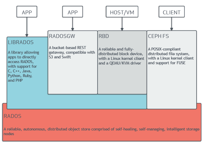 Architecture diagram showing the component relation of the Ceph storage platform